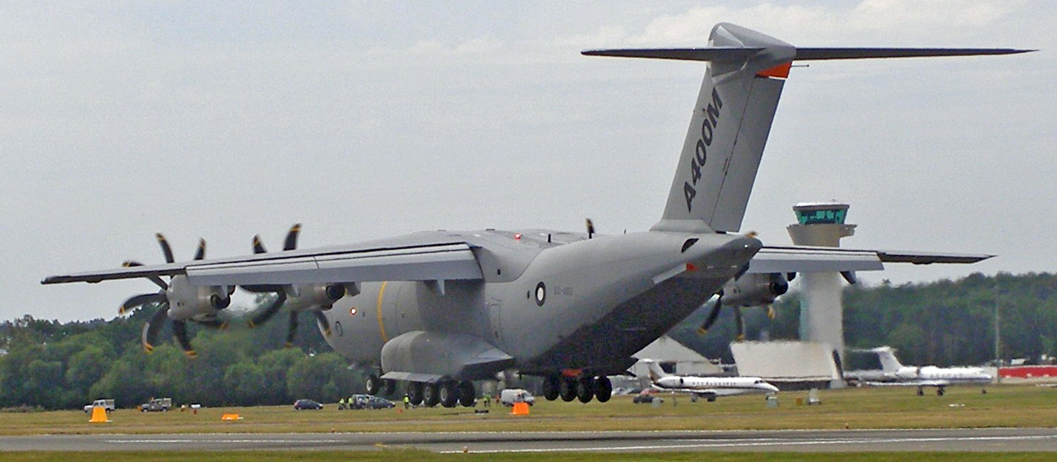 EC-402 "Grizzly2" the second prototype Airbus Military A400M at the 2010 Farnborough Airshow